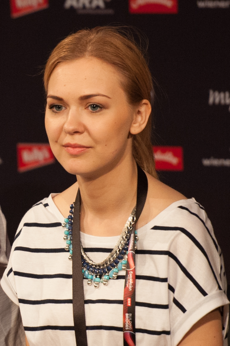 Eurovision Song Contest Vienna 2015: Monika Linkytė